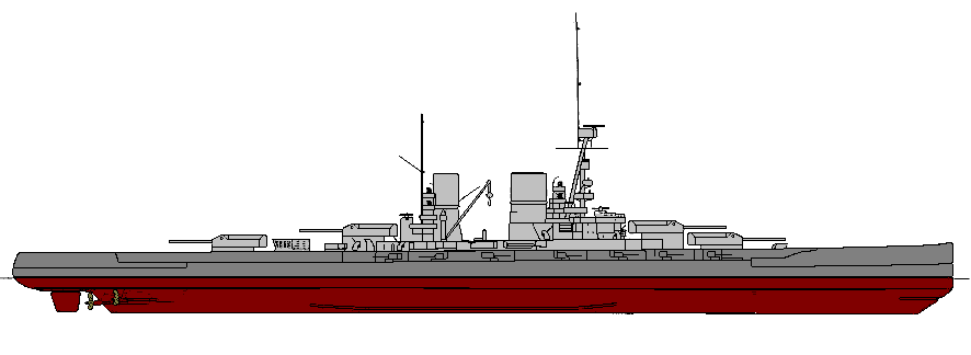 Line drawing of the German battlecruiser SMS Mackensen (please note that the apparent blur as compared to the jpg variant is only due to different mediawiki downsizing, and is not plagueing the full size image itself!)